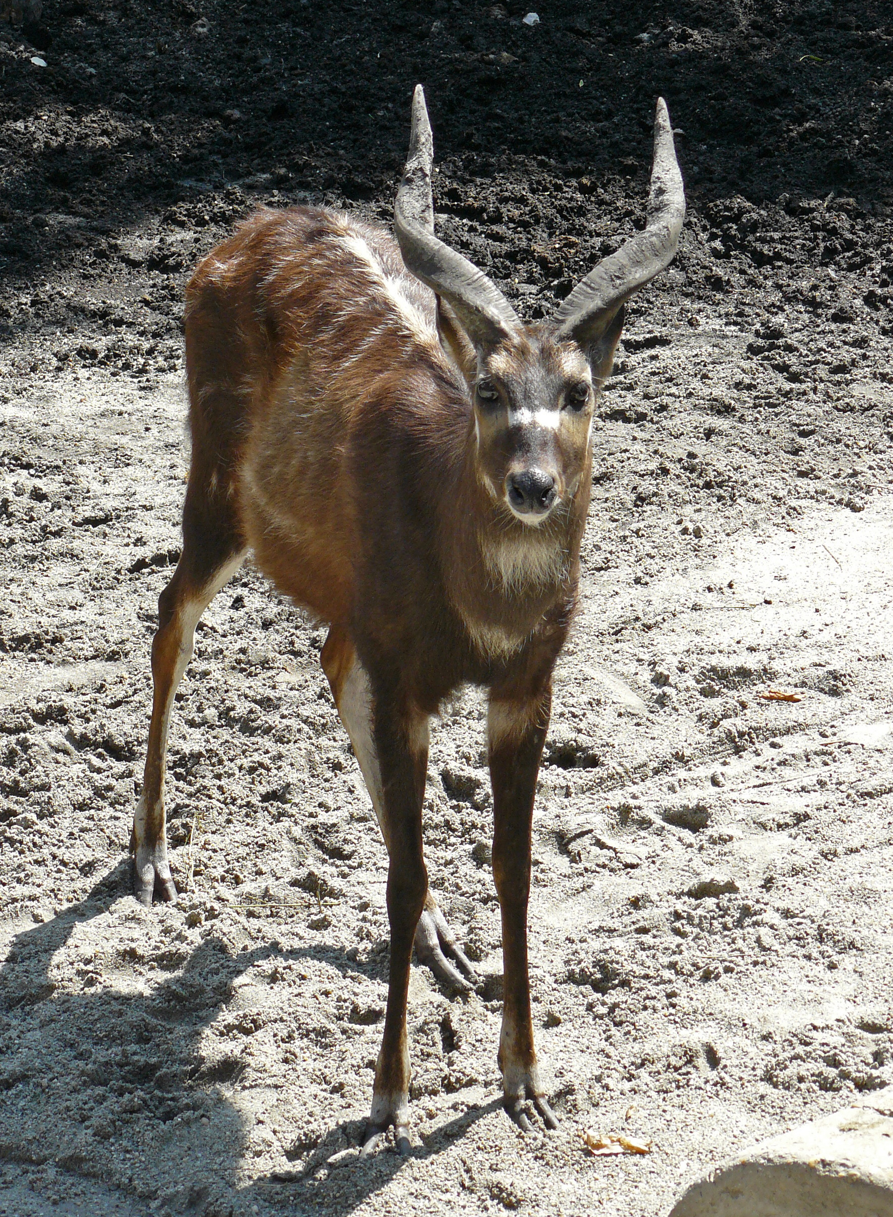 This pic was taken in the Zoo, Budapest.